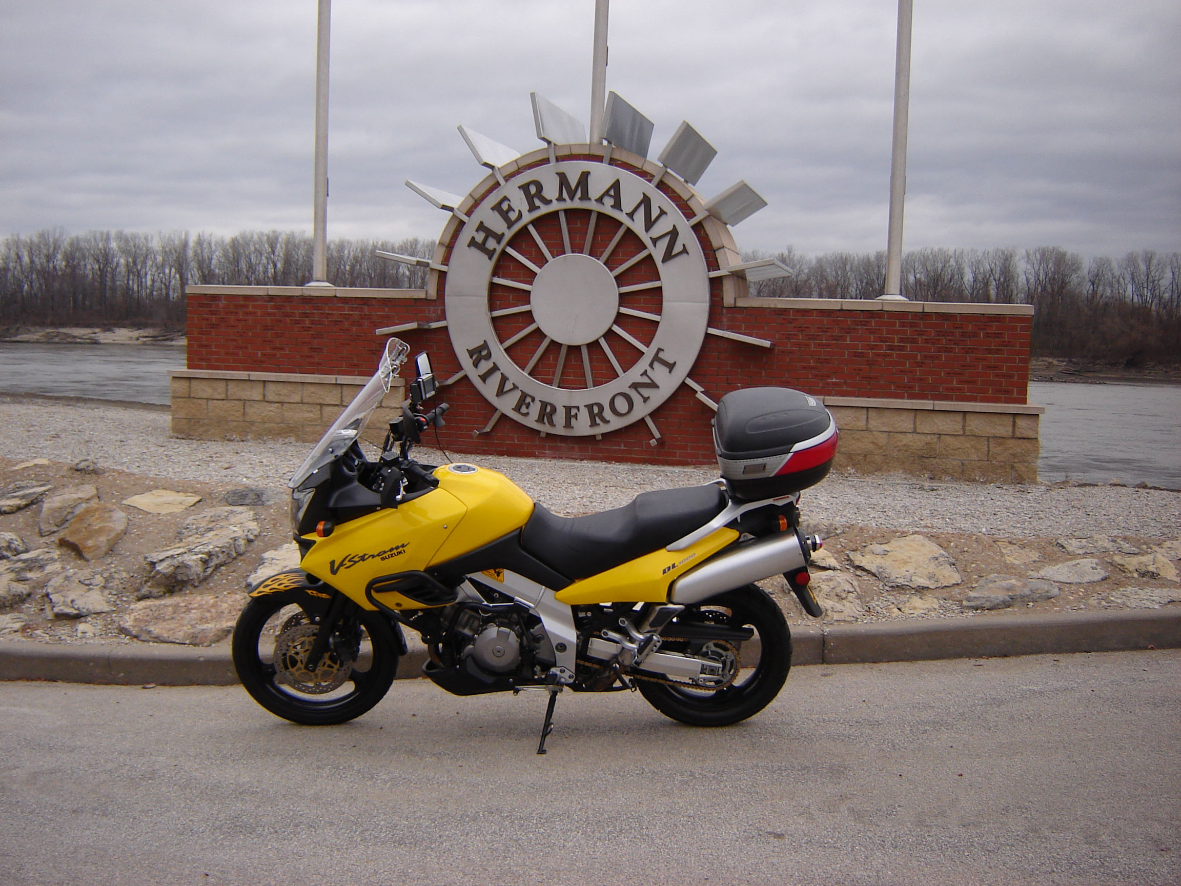 2003 Suzuki V-Strom 1000